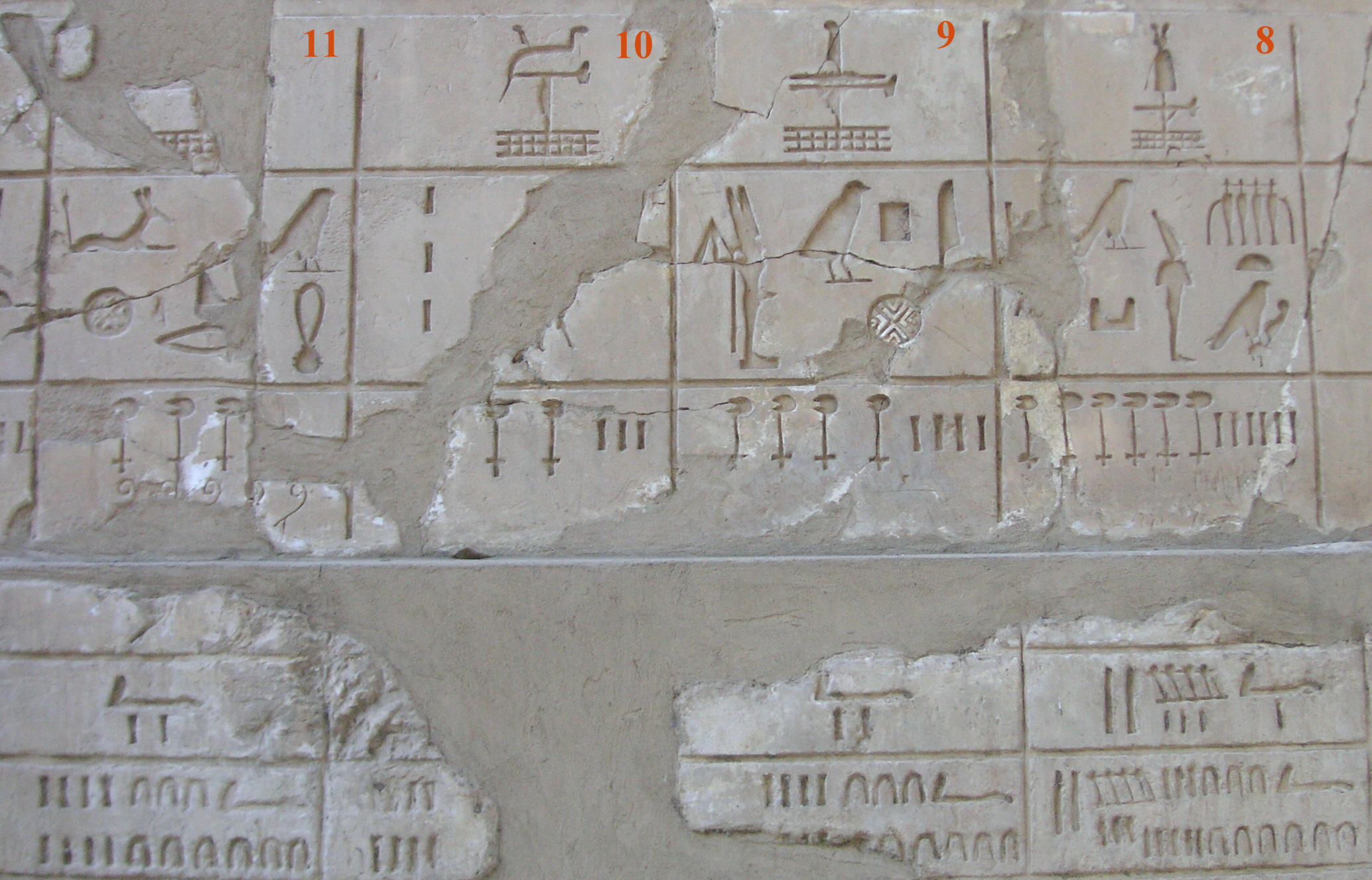 Nome 8 to 11 of Upper Egypt (list of Sesostris I.)